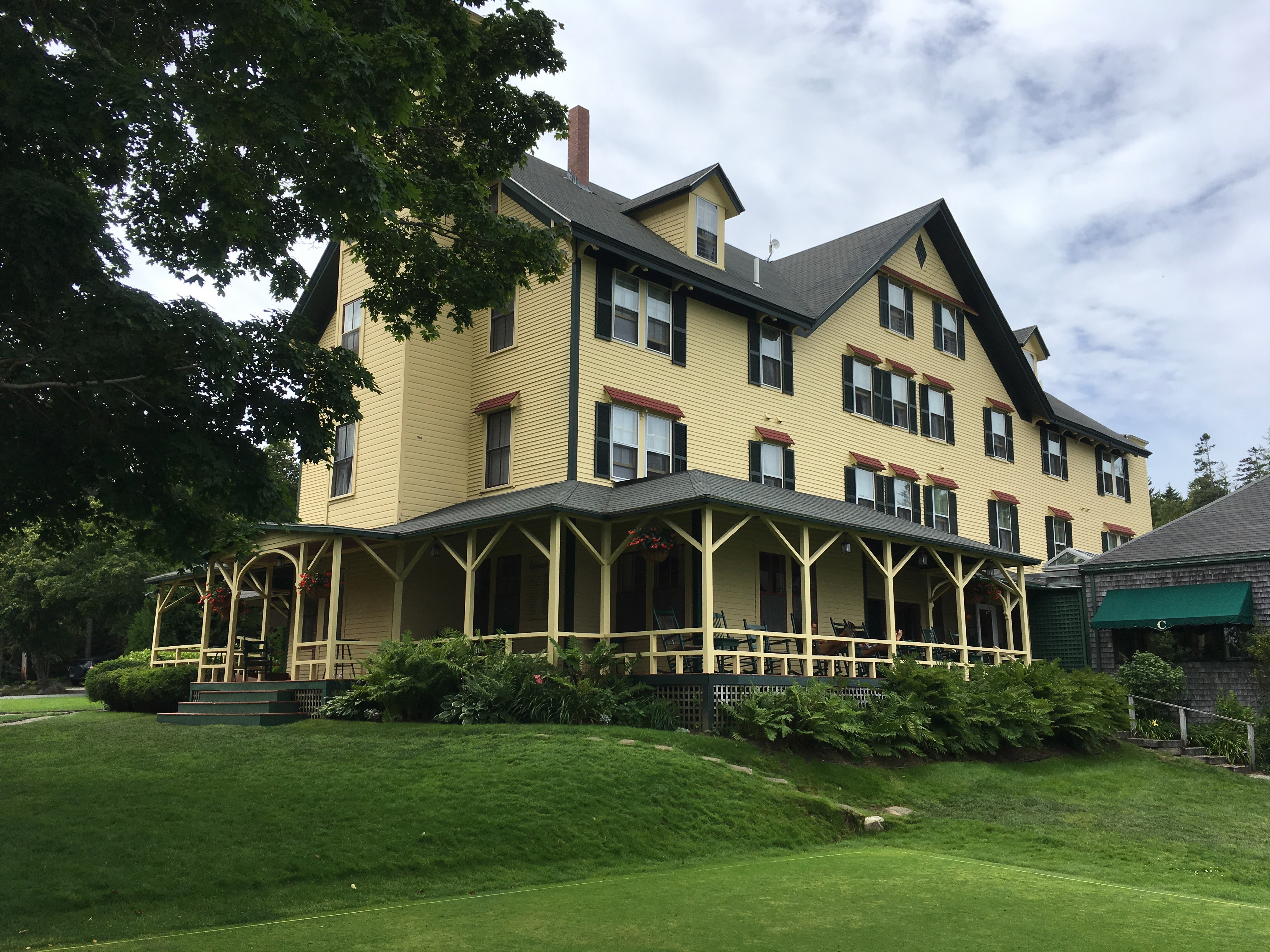 Depicted place: Claremont Hotel